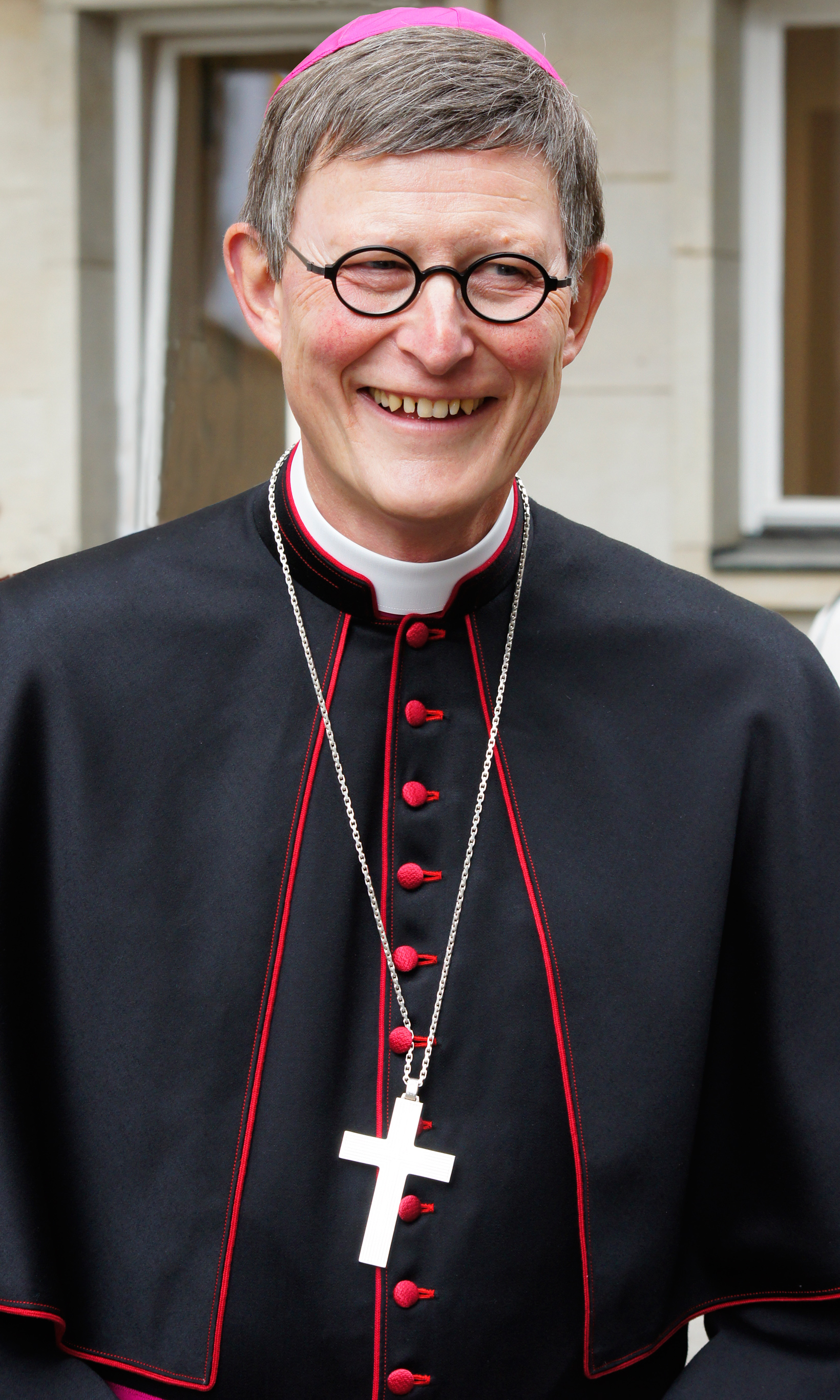 Rainer Maria Woelki, Archbishop of Berlin